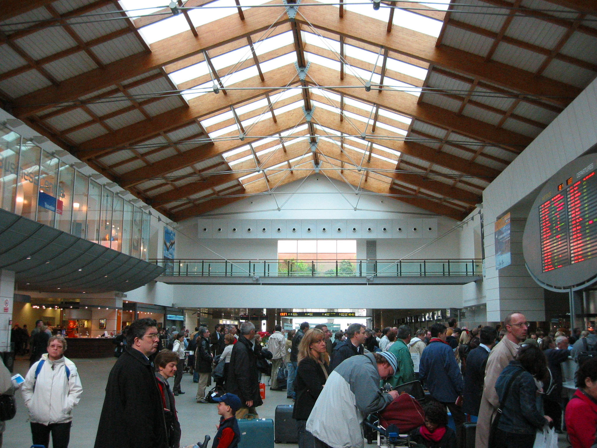 interior of the airport of Venice, Italy